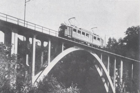 Bridge on the Biella-Masserano railway